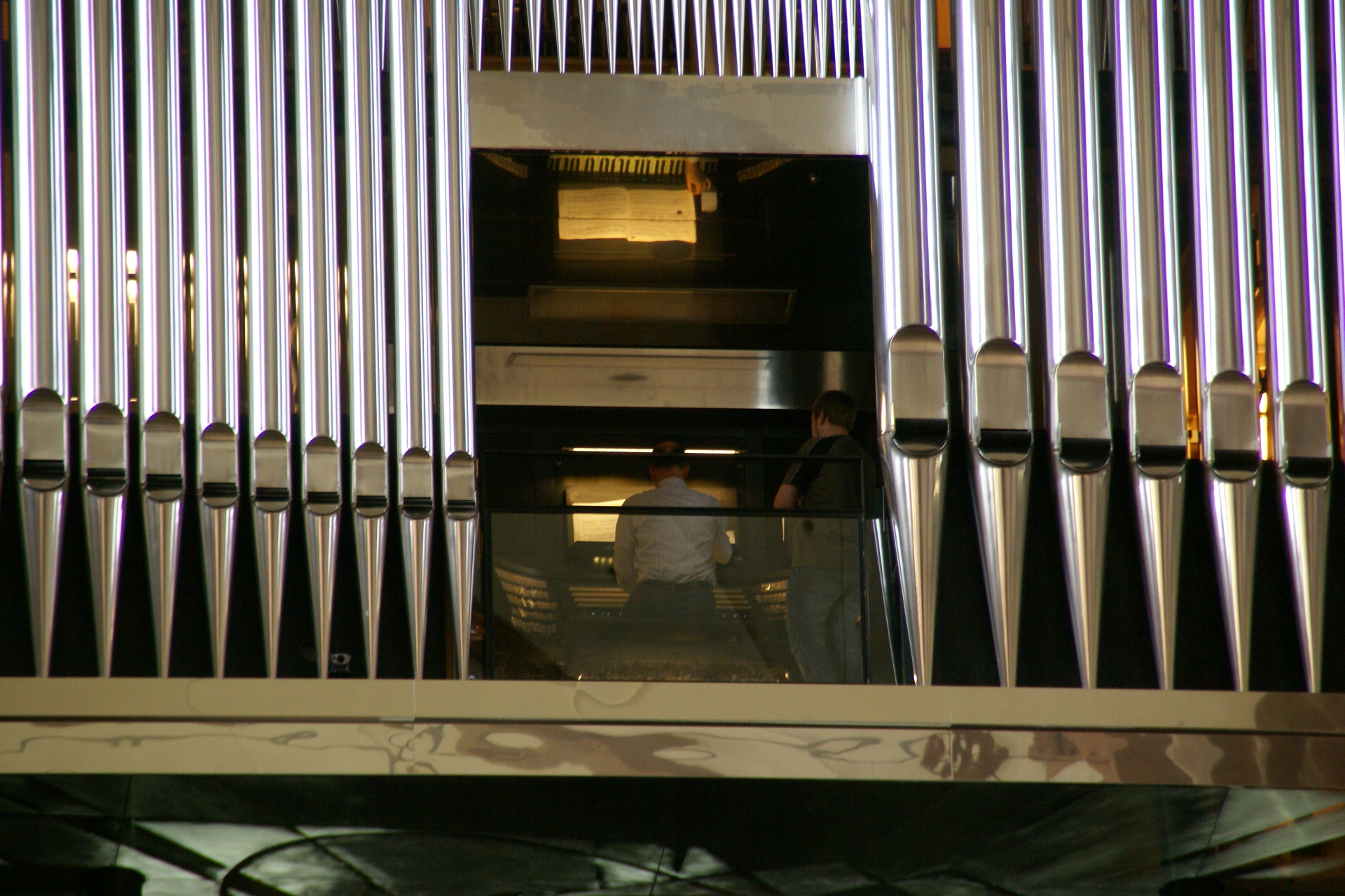 Pipe organ in Speyer Cathedral (Germany)